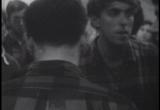 Screen shot from the film Columbia Revolt, taken from the Internet Archive at Film is an independent film in the public domain so there is no copyright holder, but even if that is incorrect for some reason fair use allows use of a screen shot to illustrate the subject. In this case the screen shot will be used in the article "Columbia Revolt."